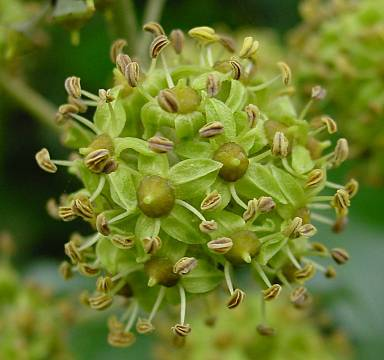 Flowers of Hedera helix